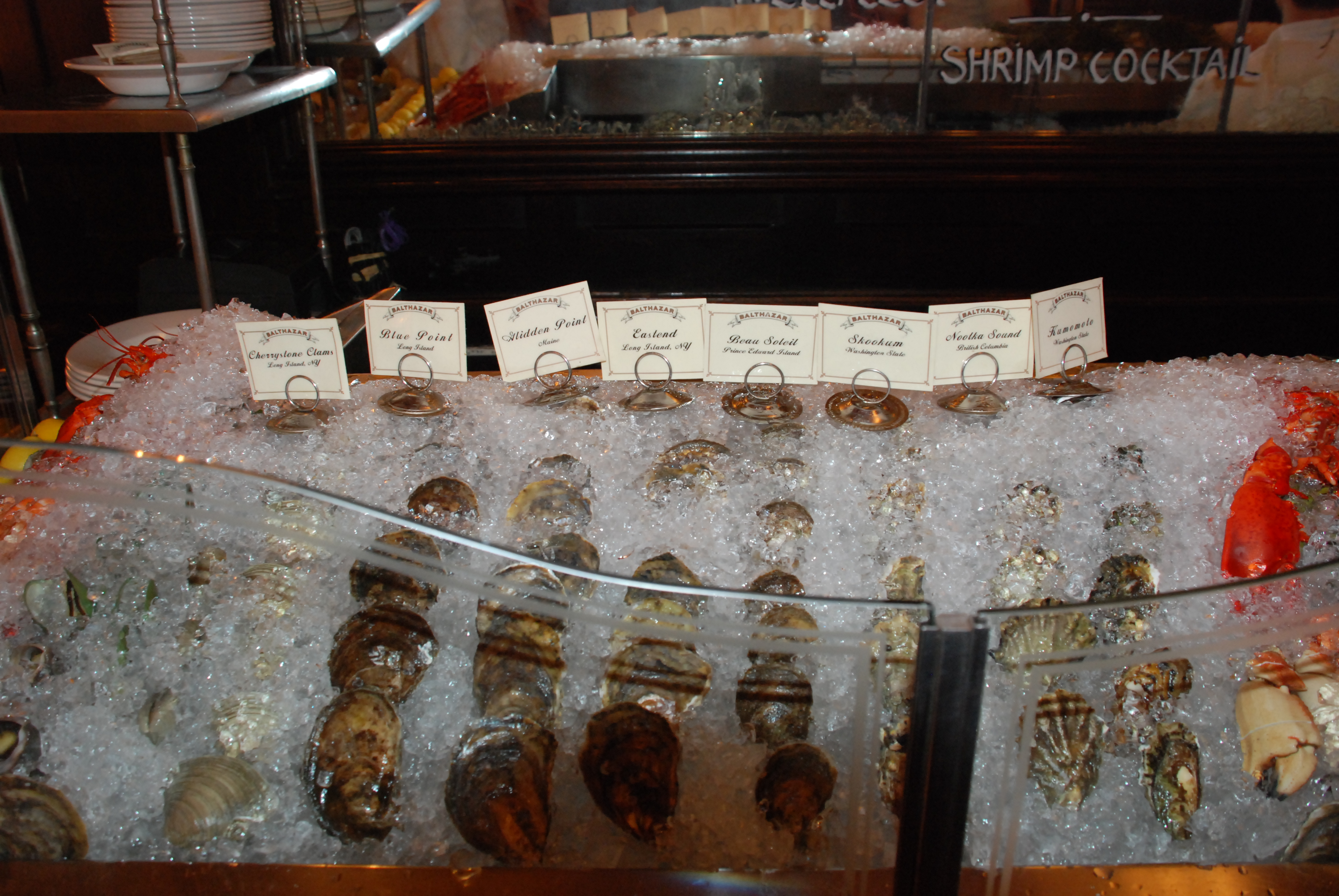 Oysters in Balthazar Restaurant in New York City